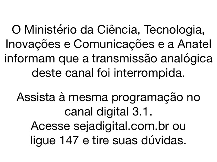 Analog broadcast shutdown in Brazil.